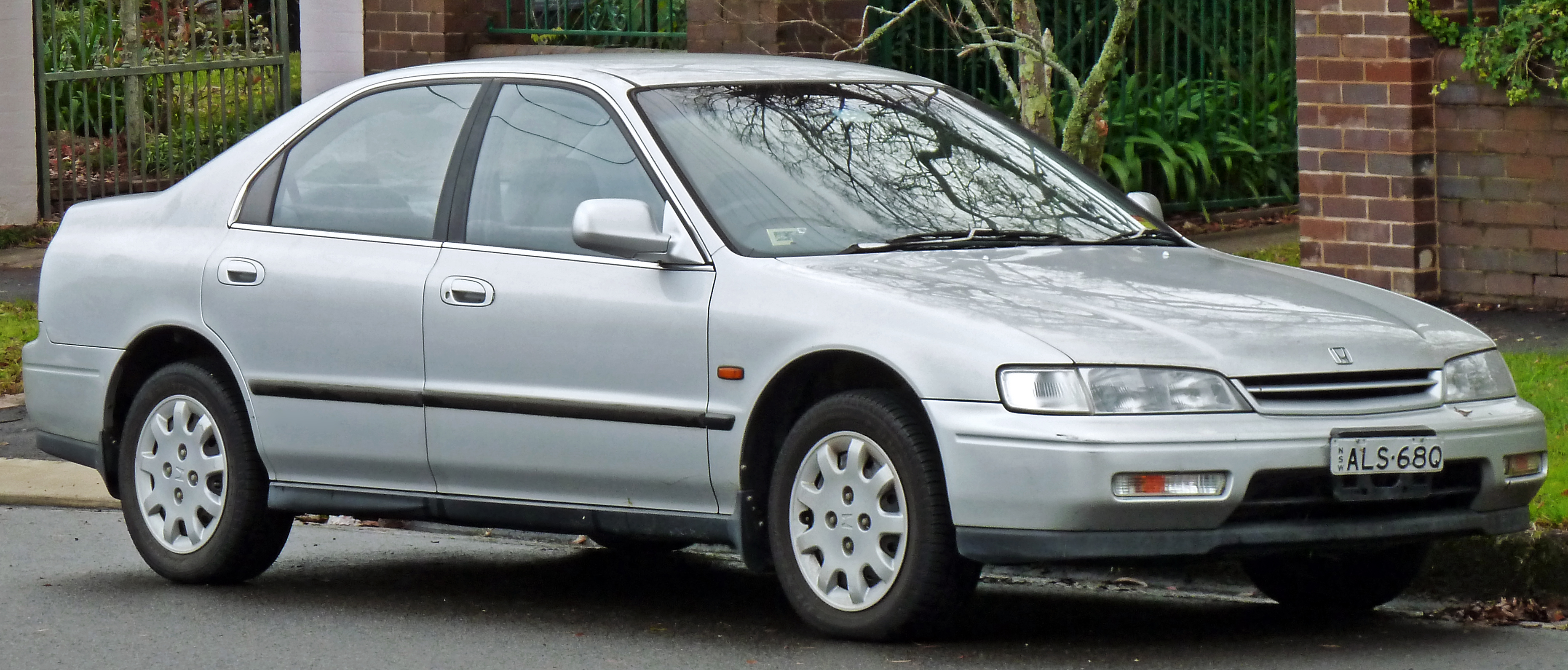 1993–1995 Honda Accord EXi sedan. Photographed in Gordon, New South Wales, Australia.